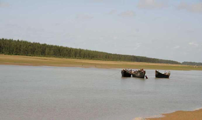 sea beach